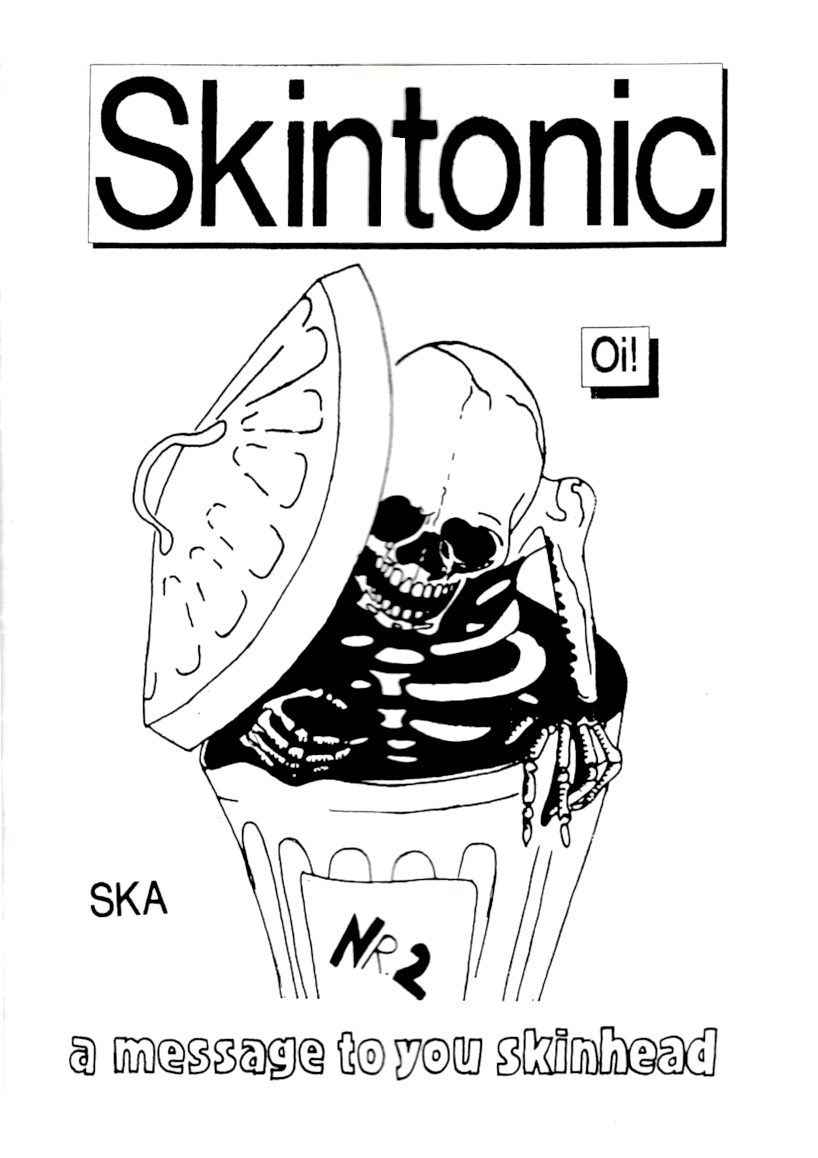 Die 1988 erschiene zweite Ausgabe des Fanzines Skintonic aus West-Berlin.